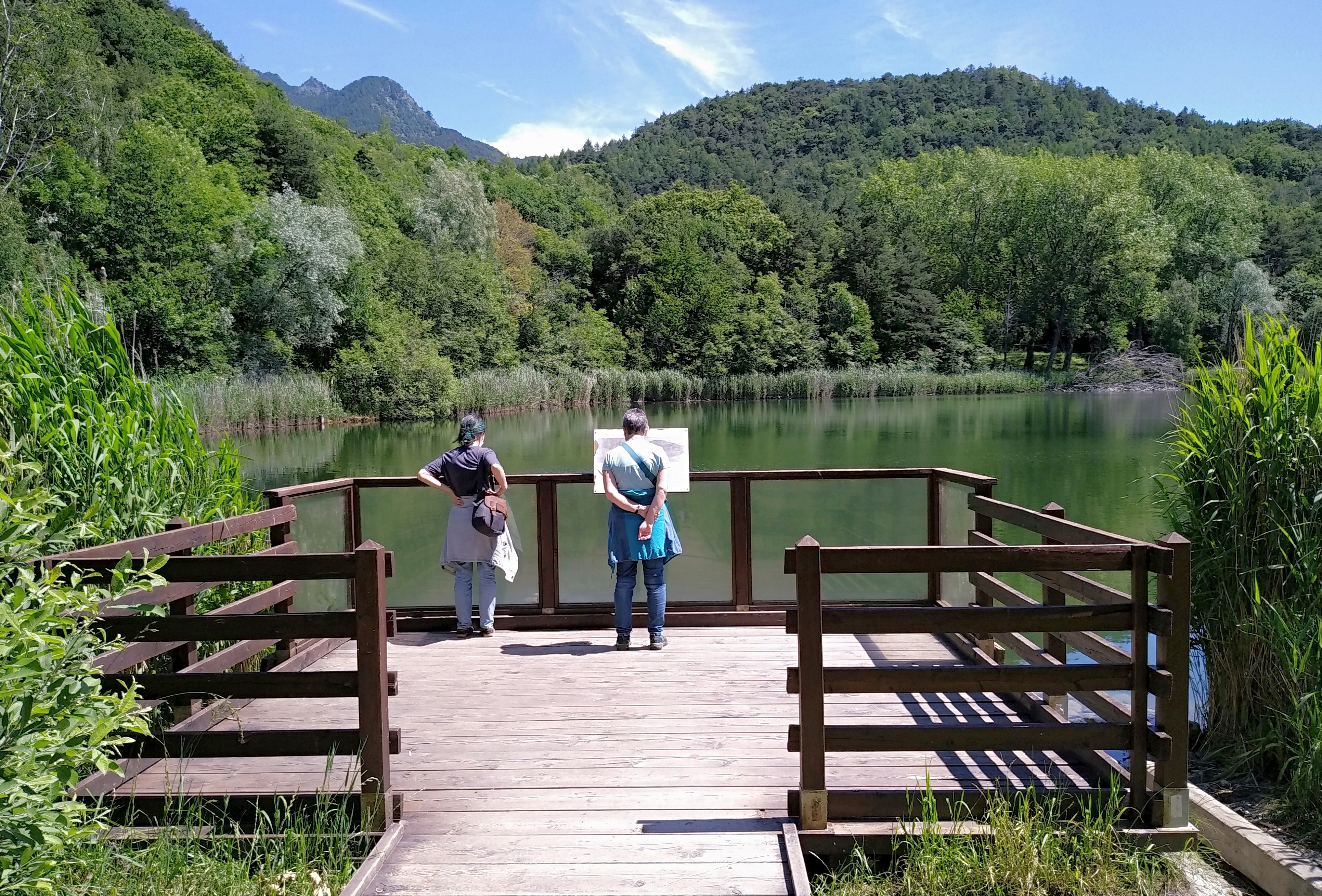 Lago di Villa (Challand-Saint-Victor, AO, Italy): a small pier on the N coast